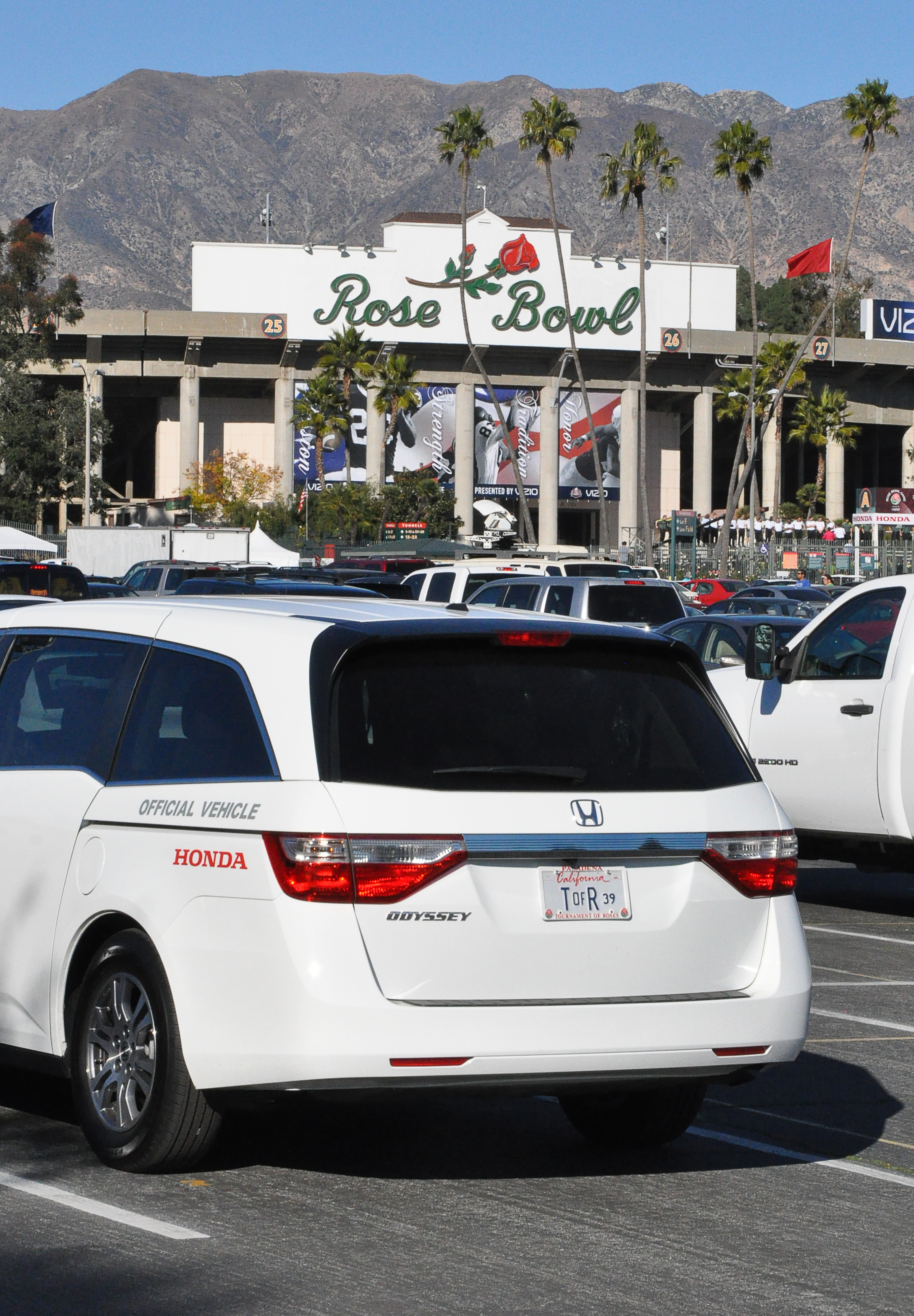 A California DMV "T of R" special edition license plate, issued for use by the Tournament of Roses.